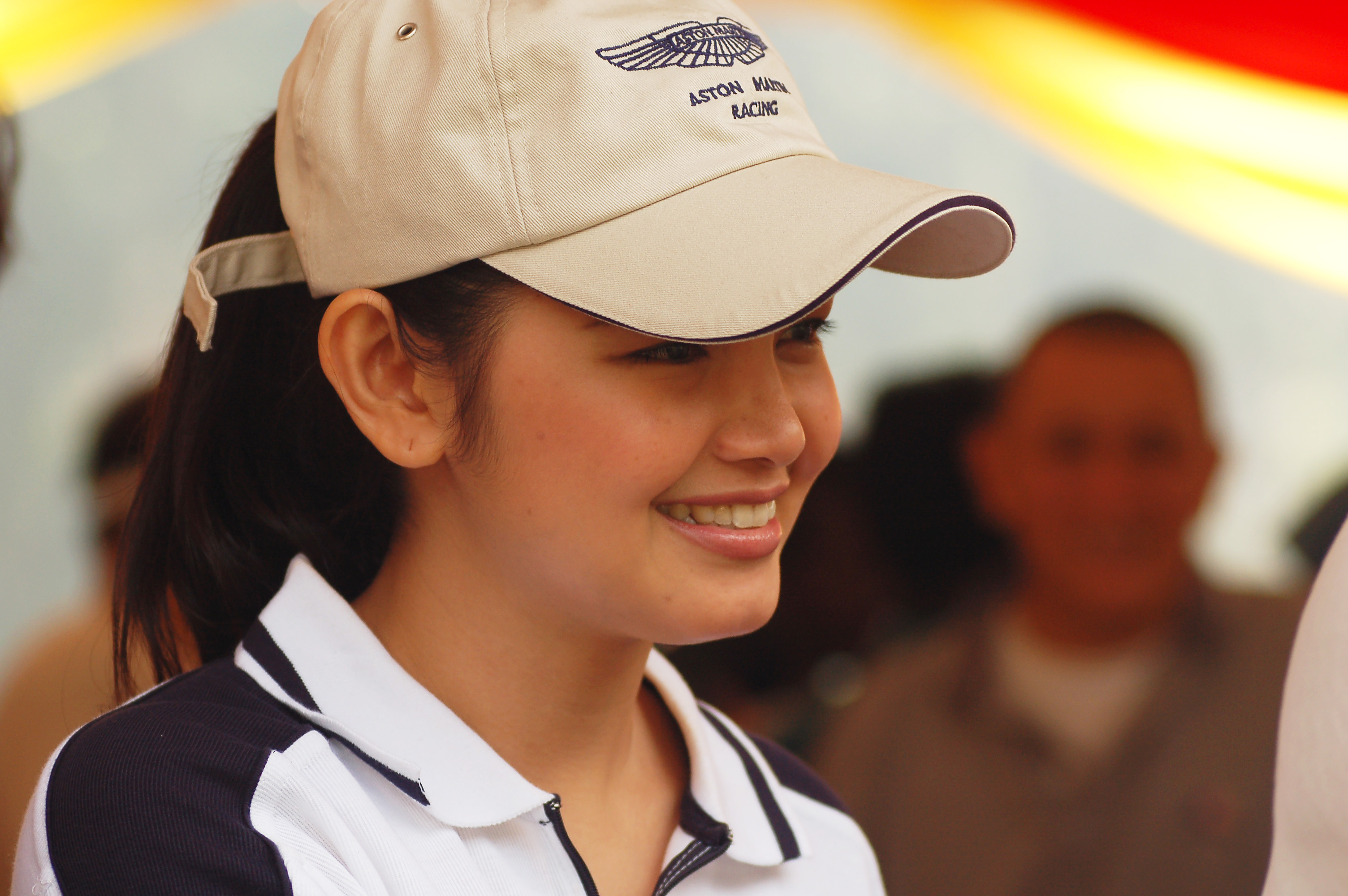 More of Siti Nurhaliza....can't get enough of her...